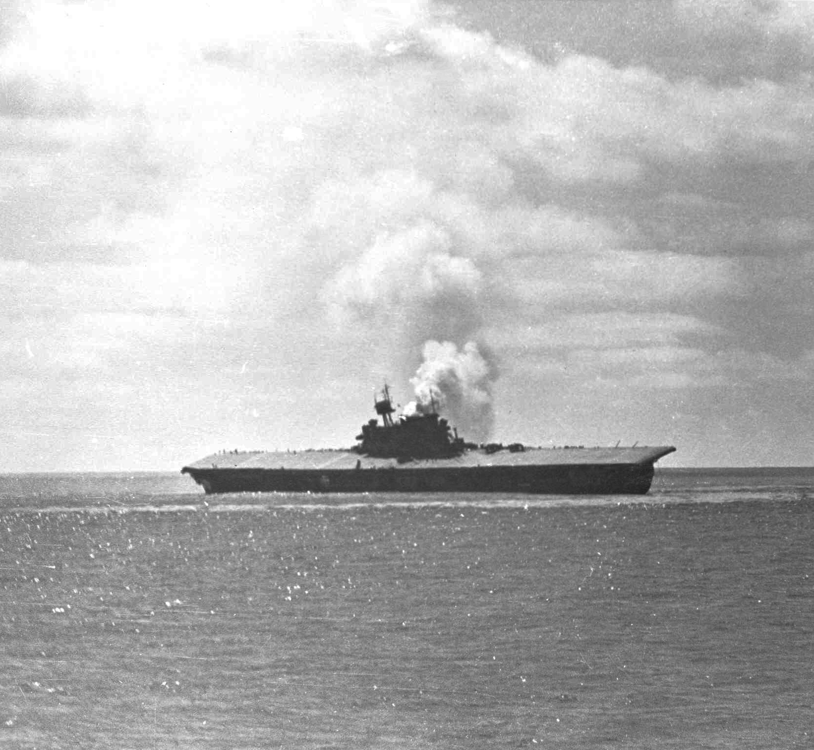 The U.S. aircraft carrier USS Yorktown (CV-5) damaged the Battle of Midway, 4 June 1942. The Yorktown lists heavily to the port side with smoke billowing from her funnel after an attack by Japanese aircraft during which she sustained three bomb hits and two torpedo hits. On 6 June 1942 the Japanese submarine I-168 scored another two torpedo hits on the crippled aircraft carrier and she sank on 7 June. Destroyers spent an entire day seeking out the Japanese submarine that sunk the Yorktown and her escort destroyer, USS Hammann (DD-412), but failed to sink I-168. The submarine was finally sunk by the USS Scamp (SS-277) on 27 July 1943.